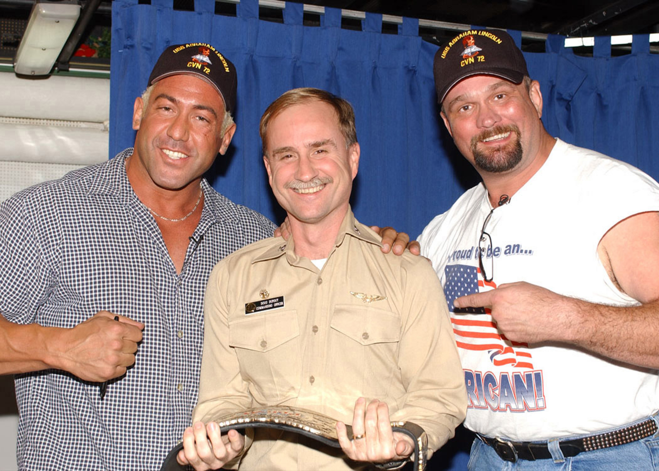 At sea aboard USS Abraham Lincoln (CVN 72) May 9, 2002 – World Wrestling Federation (WWF) personalities Chuck Palumbo (left) and “The Big Boss Man” (right) present a WWF Championship Belt to the ship’s commanding officer, Captain Doug Dupuoy, during a recent visit aboard the aircraft carrier. Lincoln has been conducting at sea training exercises in preparation for a scheduled deployment later this summer. U.S. Navy photo by Photographer's Mate Airman Jennifer Nichols. (RELEASED)